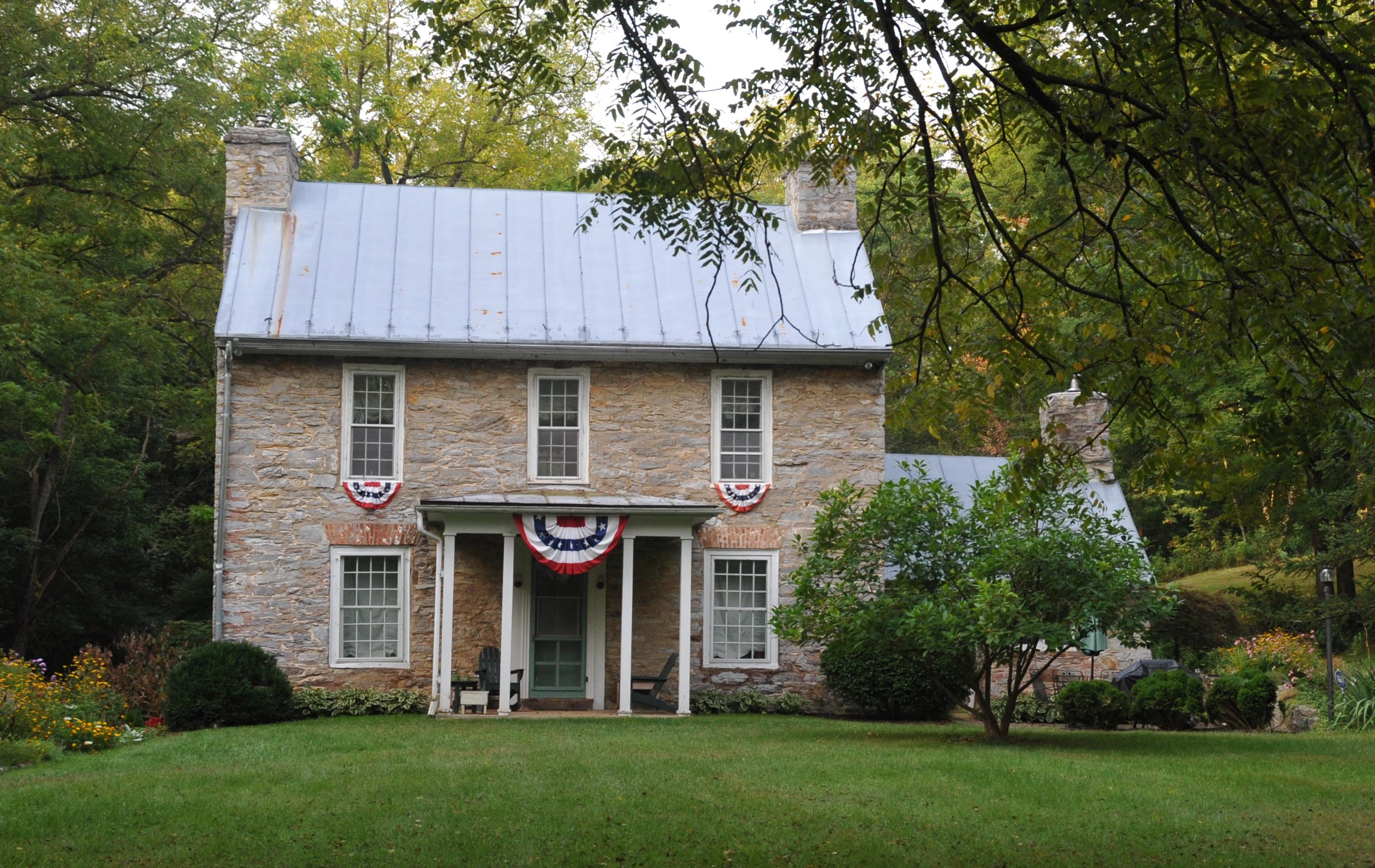 THOMAS SWEARINGEN HOUSE CIRCA 1760 NEAR THE SITE OF THE FIRST MILL IN WEST VIRGINIA BUILT BEFORE 1734